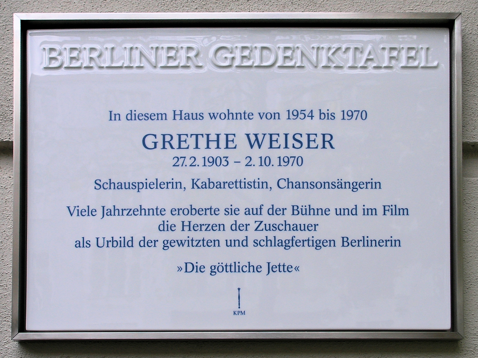 Berlin memorial plaque, Grethe Weiser, Giesebrechtstraße 18, Berlin-Charlottenburg, Germany Koordinate:52°30′9″N 13°18′33″E / 52.5025°N 13.30917°E